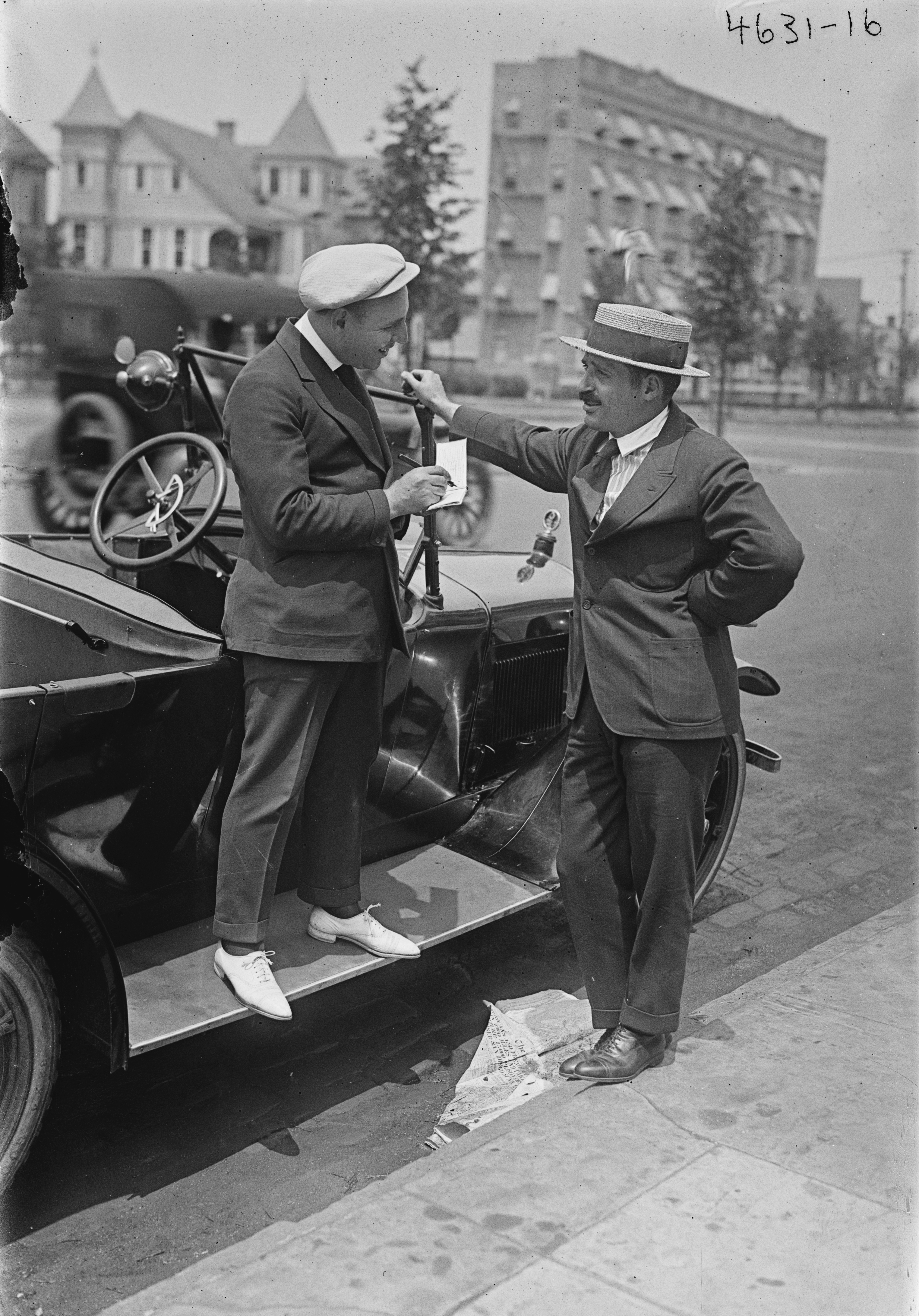 U.S. singer and Vaudeville star Arthur Fields (at left) stands on automobile running board, talking to unidentified man with moustache and straw boater hat.